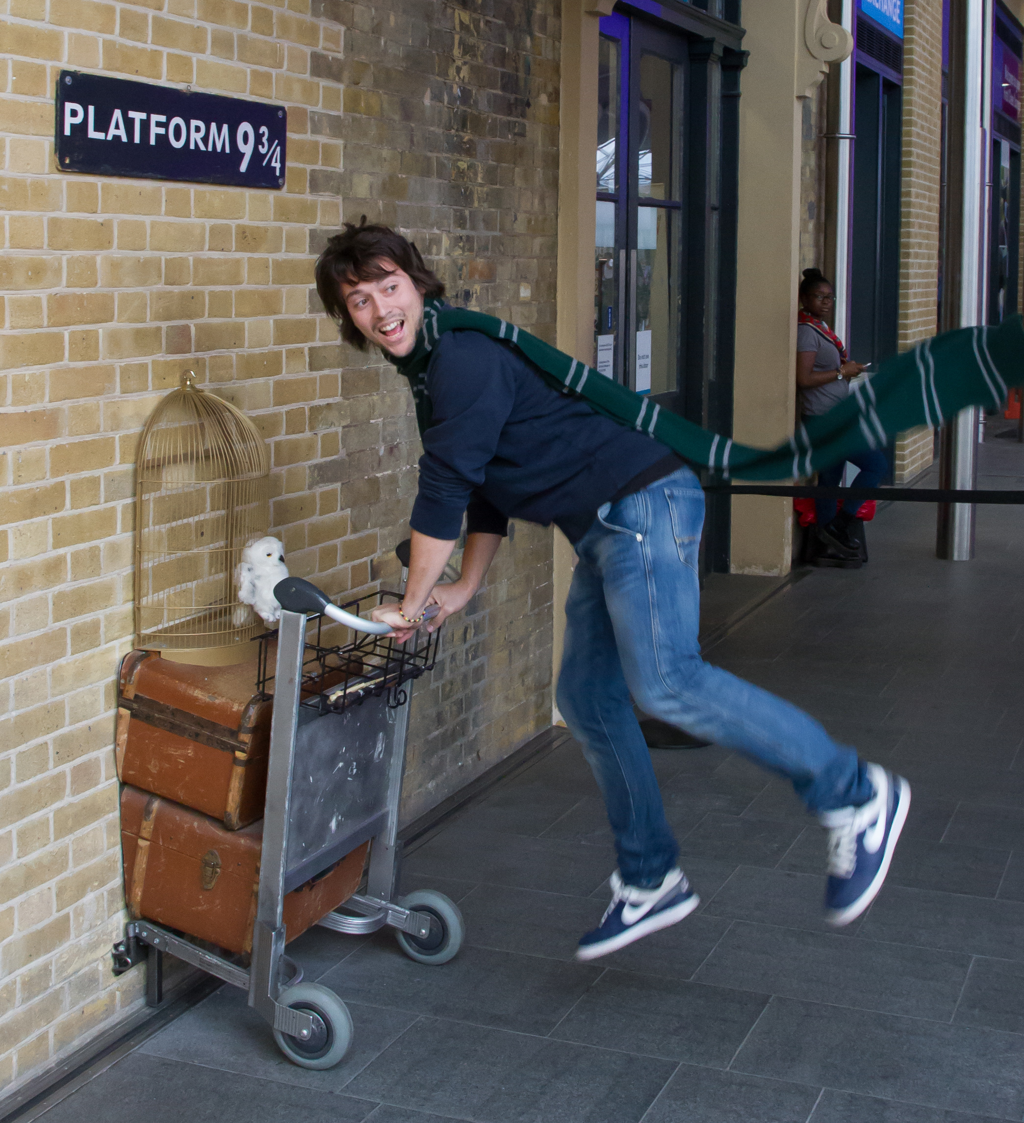 Platform Nine and Three Quarters